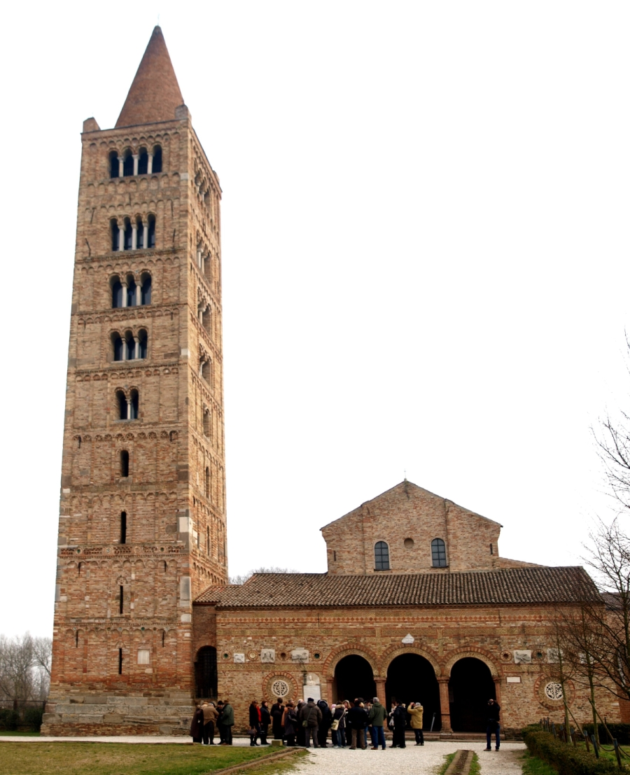 benedictine abbey in the province of ferrara. the church probably dates back to the 7th century. the bell tower is from 1063. inside there was a really cool baptismal font in longobard style, but we were not allowed to take any pictures. unfortunately, the light was awful for taking pictures of bell towers